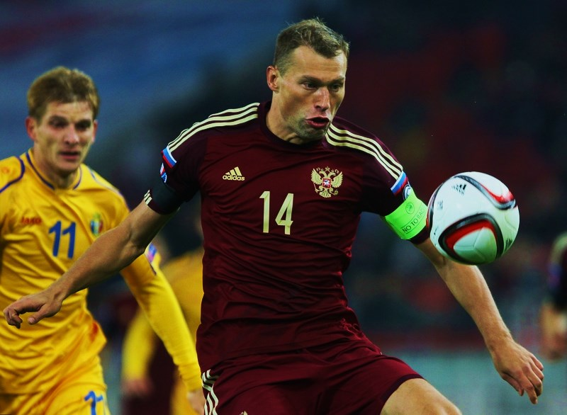 Vasily Berezutsky